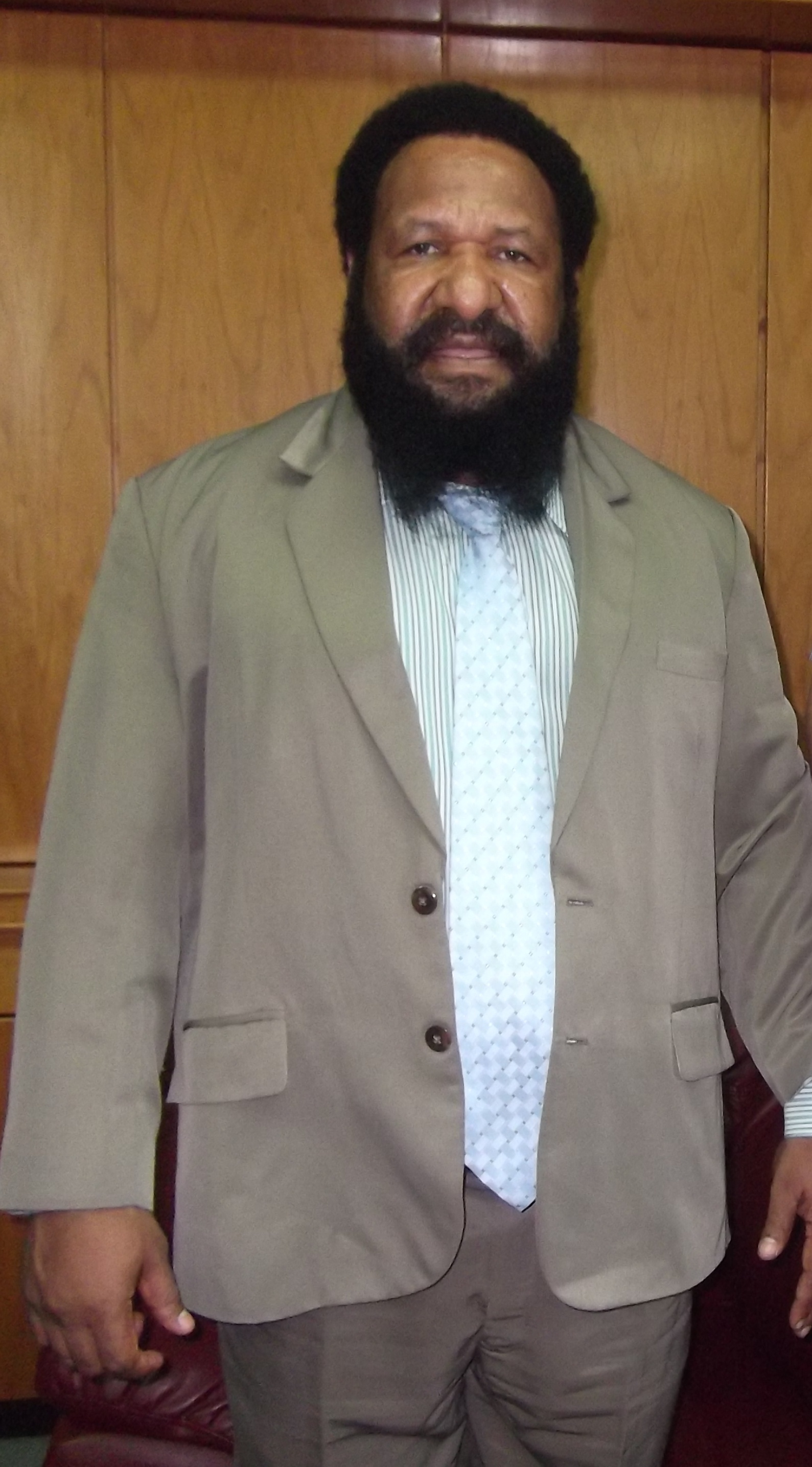 Don Polye